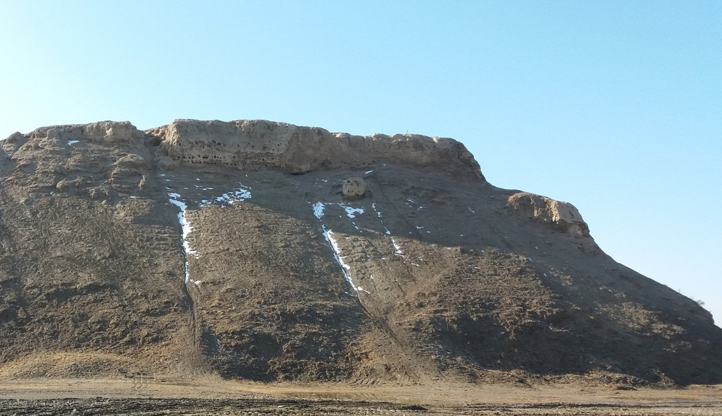 This fortress was situated on the crossroads of the Great Silk Road on the left bank of the Amudarya River. Caravans split here into those heading to Khoresm, Merv, Ghazni or back to Bukhara.